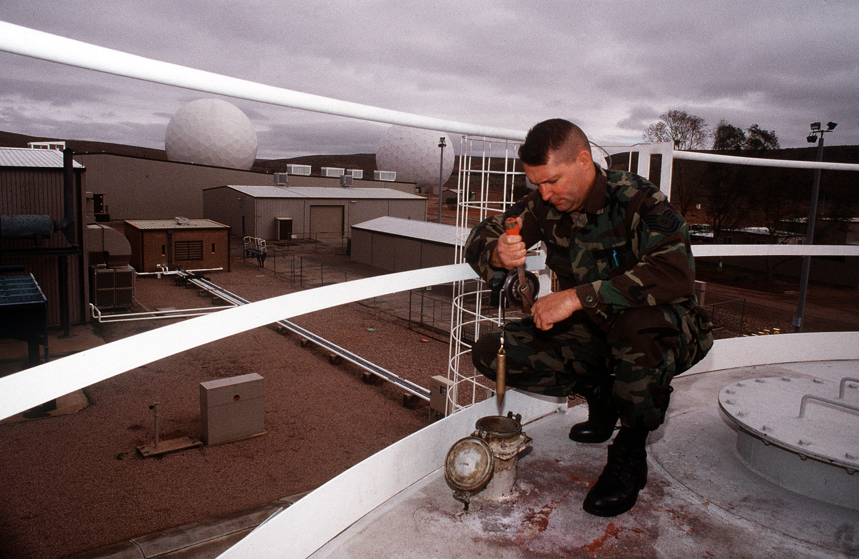 ID: DF-ST-98-06078; 961201-F-0934S-004; Power Plant Foreman, Technical Sergeant William Bennett, checks the diesel fuel level of one of two 60,000 gallon tanks used to power the three generators at Joint Defense Facility Nurrungar, Australia. TSgt Bennett is assigned to the 5th Space Warning Squadron which shares responsibility for the operation of the facility with Australia's No. 1 Joint Communications Unit in the Australian interior.